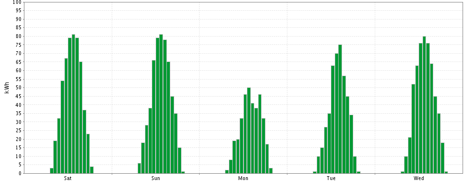 Hourly output from the PG&E solar panels installed at San Francisco Giants AT&T Park over the period from August 16-20, 2008. The panels are rated at 122.72 kWp DC.